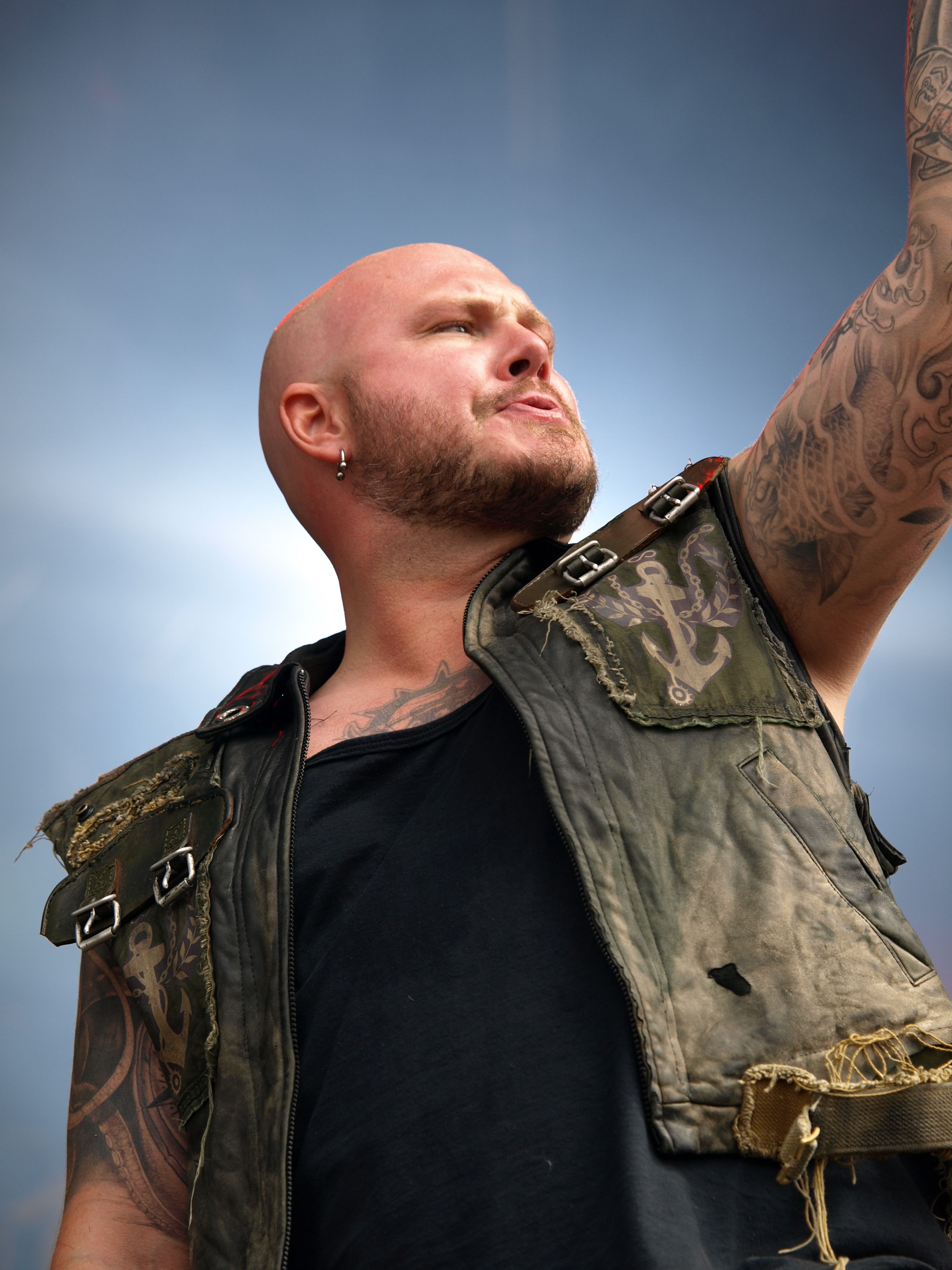 Swedish metal band Soilwork live at Tuska Open Air 2013